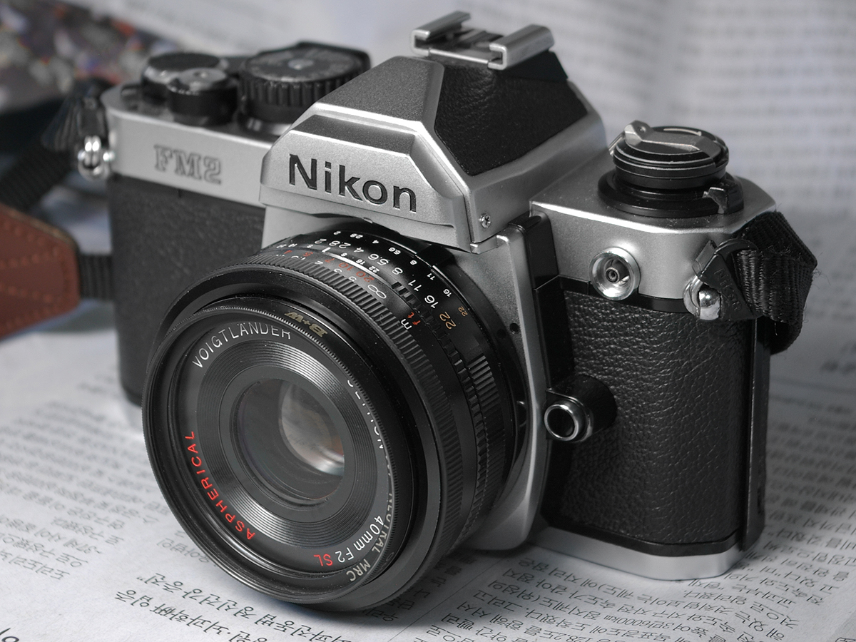 Nikon FM2 with Voigtlander Ultron 40mm F2 SL II